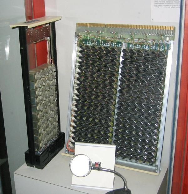 Deben Dave 21:29, 9 March 2007 (UTC)